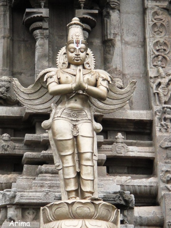 Srivilliputur - Temple